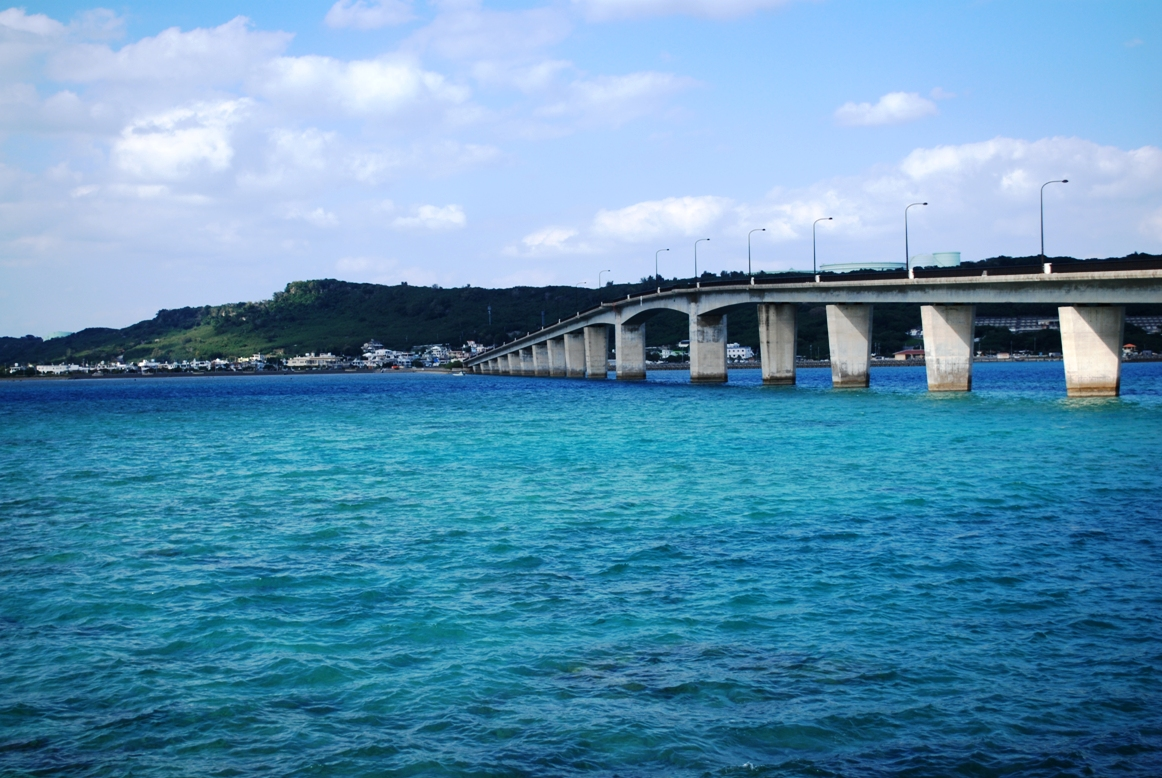 Hamahiga ohashi Bridge